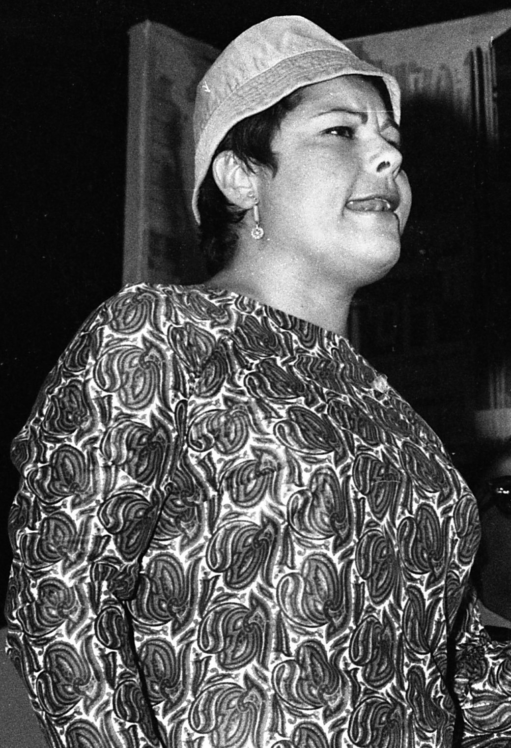 Israel Galili in an IDF base participating in the show "Kaleidoscope" with Haim Yavin from the Israeli TV.